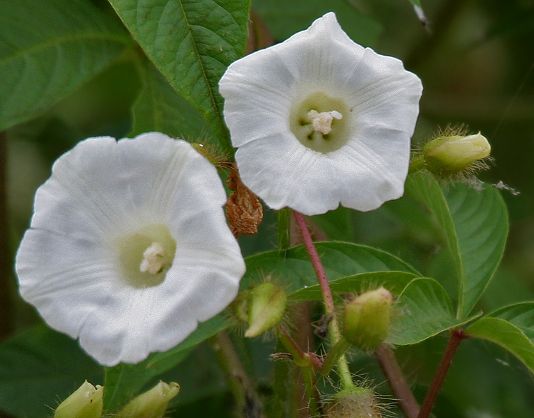 Merremia aegyptia in Hyderabad, India.